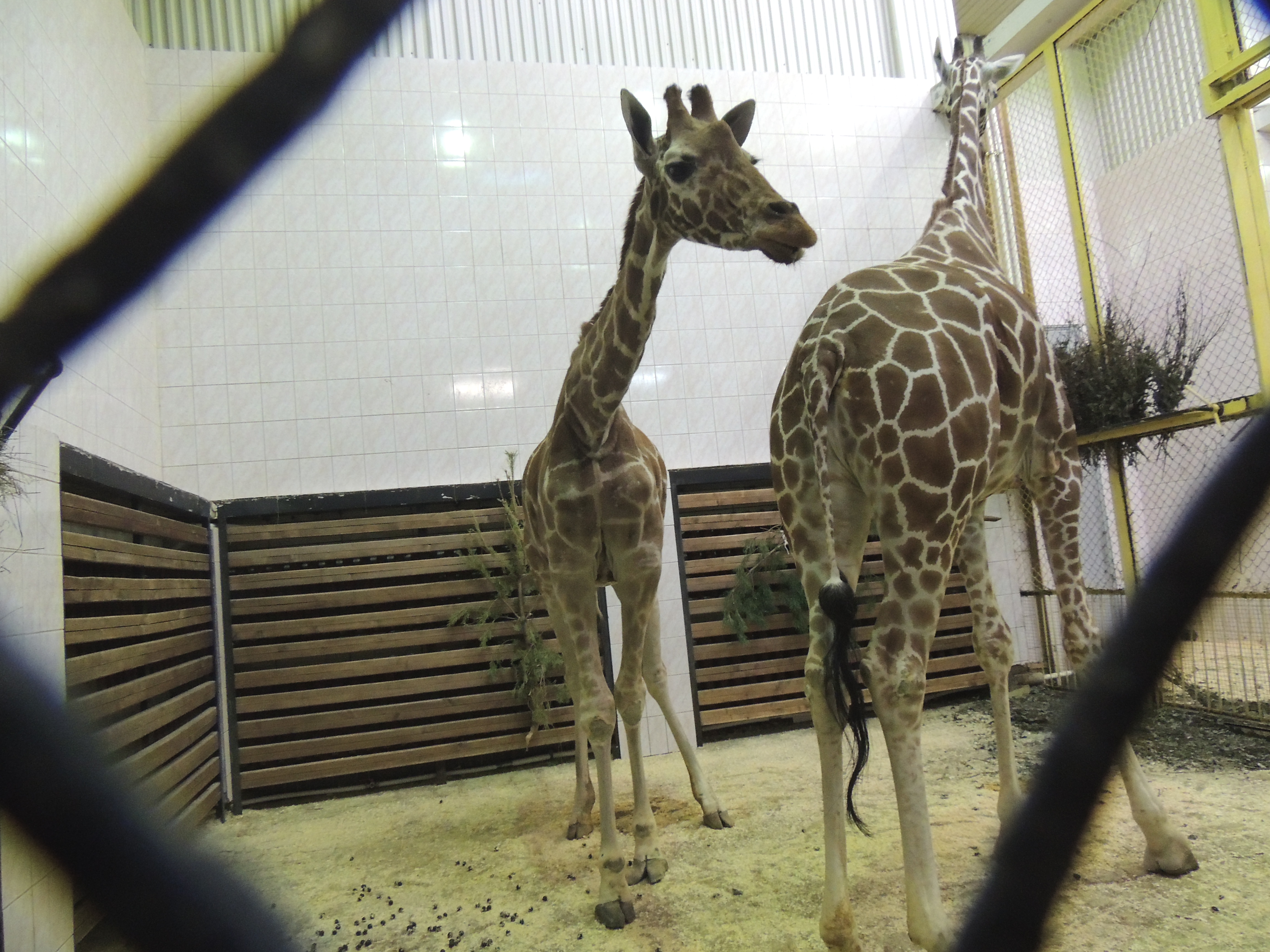 Giraffes Luga (2016-11-01)